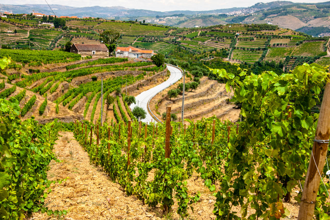 Vineyards in the Portuguese wine region of the Douro valley.